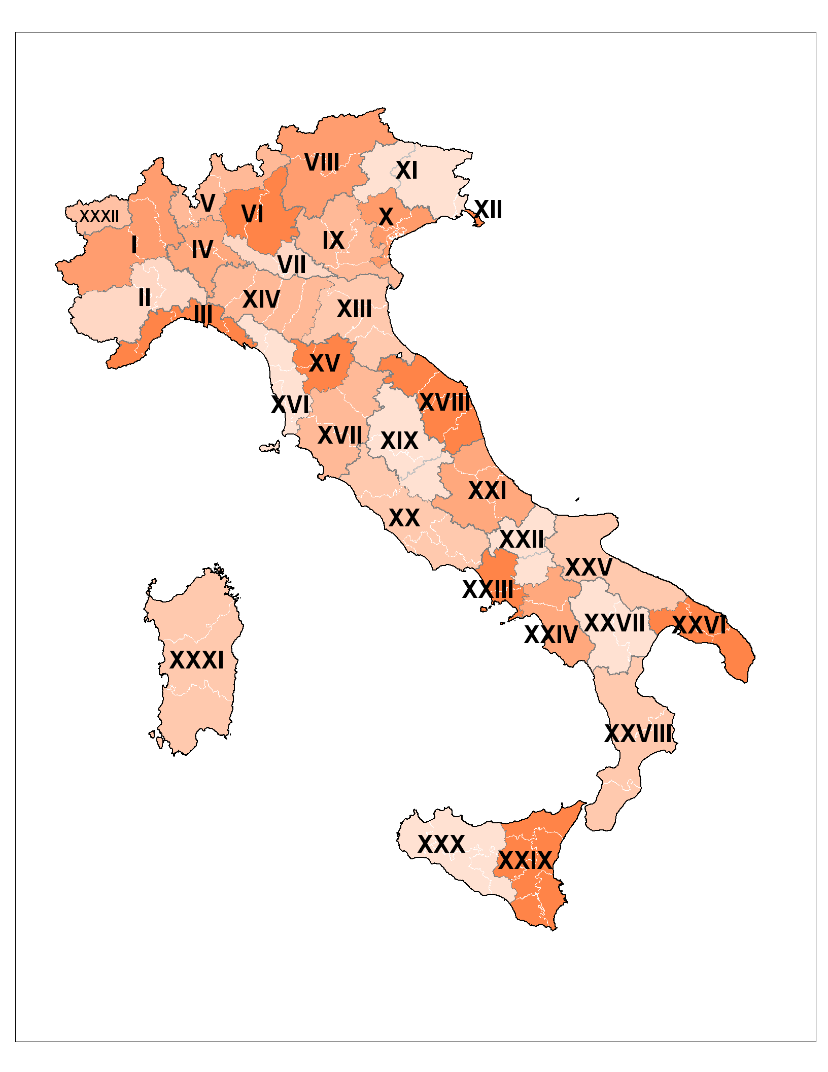 Italian constituencies from 1946 until 1993